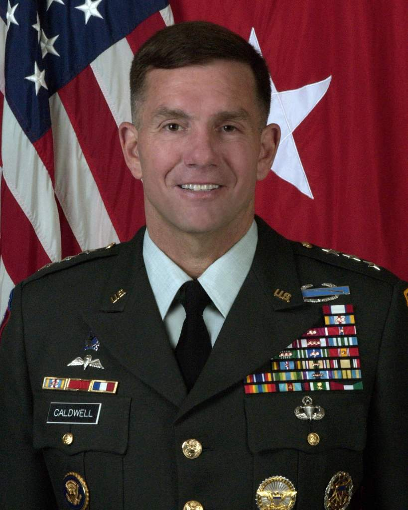 Official Selection photo of Lt. Gen. William B. Caldwell, IV